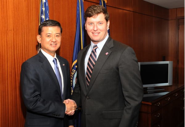 Rep. Patrick Murphy (right) and Secretary of Veterans Affairs Eric Shinseki, left.